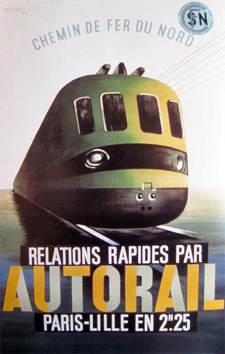 Advertising poster for Chemin de Fer du Nord: Relations rapides par autorail, Paris - Lille en 2h25""